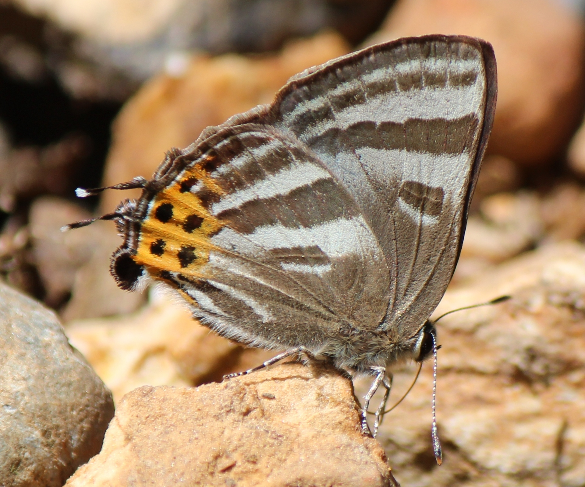 Rapala arata, in Japan.